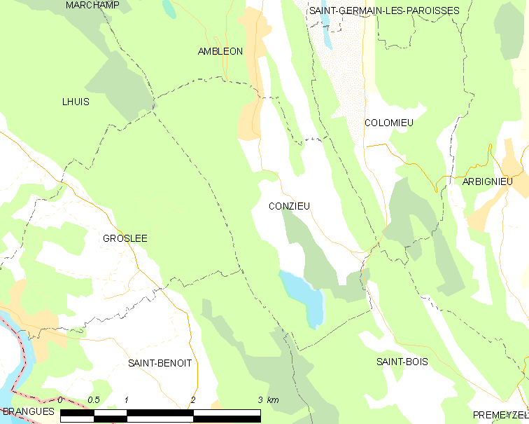 Map of French commune: Conzieu Map commune FR insee code 01117.png